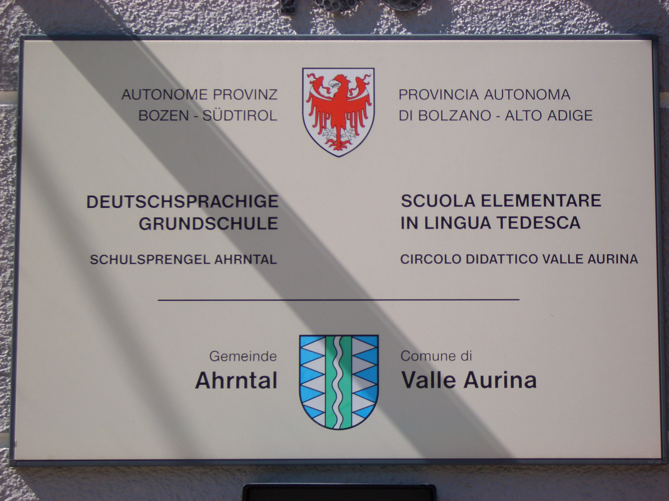 German language primary school in St. Johann/Ahrntal, South Tyrol, Italy Self-made photograph Sep 06, 2005